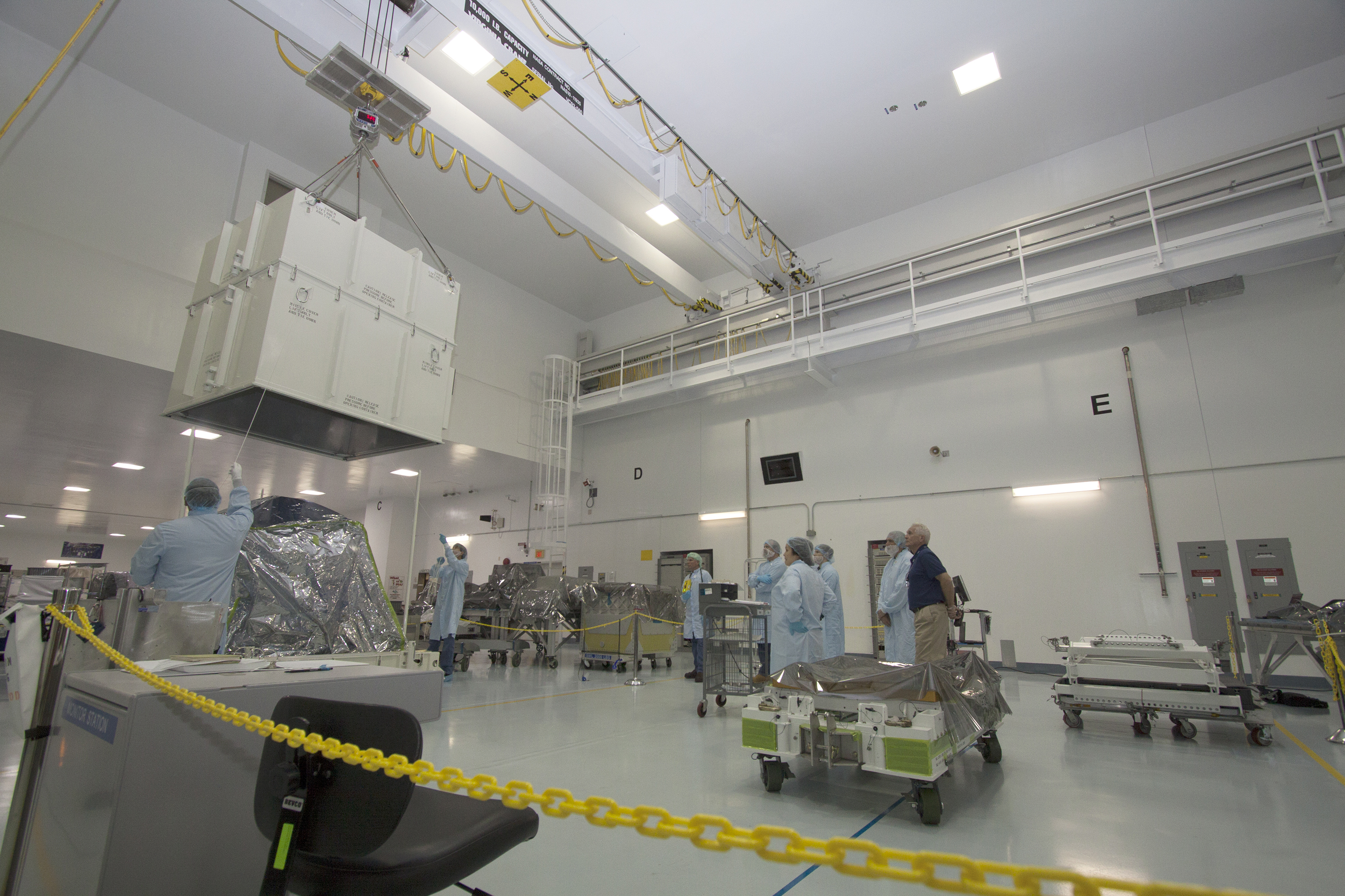 In the Space Station Processing Facility at NASA's Kennedy Space Center in Florida, the agency's Stratospheric Aerosol and Gas Experiment III, or SAGE III, instrument is being uncreated from its shipping container. Engineers and technicians will prepare the device for its launch to the International Space Station next year aboard a Dragon spacecraft launched atop a SpaceX Falcon 9 rocket. Once at the station, the agency's SAGE III instrument will take long-term measurements of ozone, aerosols and other trace gasses to help scientists better understand how to monitor and protect the Earth’s atmosphere. Photo credit: NASA/Charles Babir NASA image use policy.